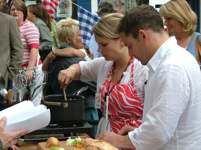 Abergavenny Food Festival Street cuisine